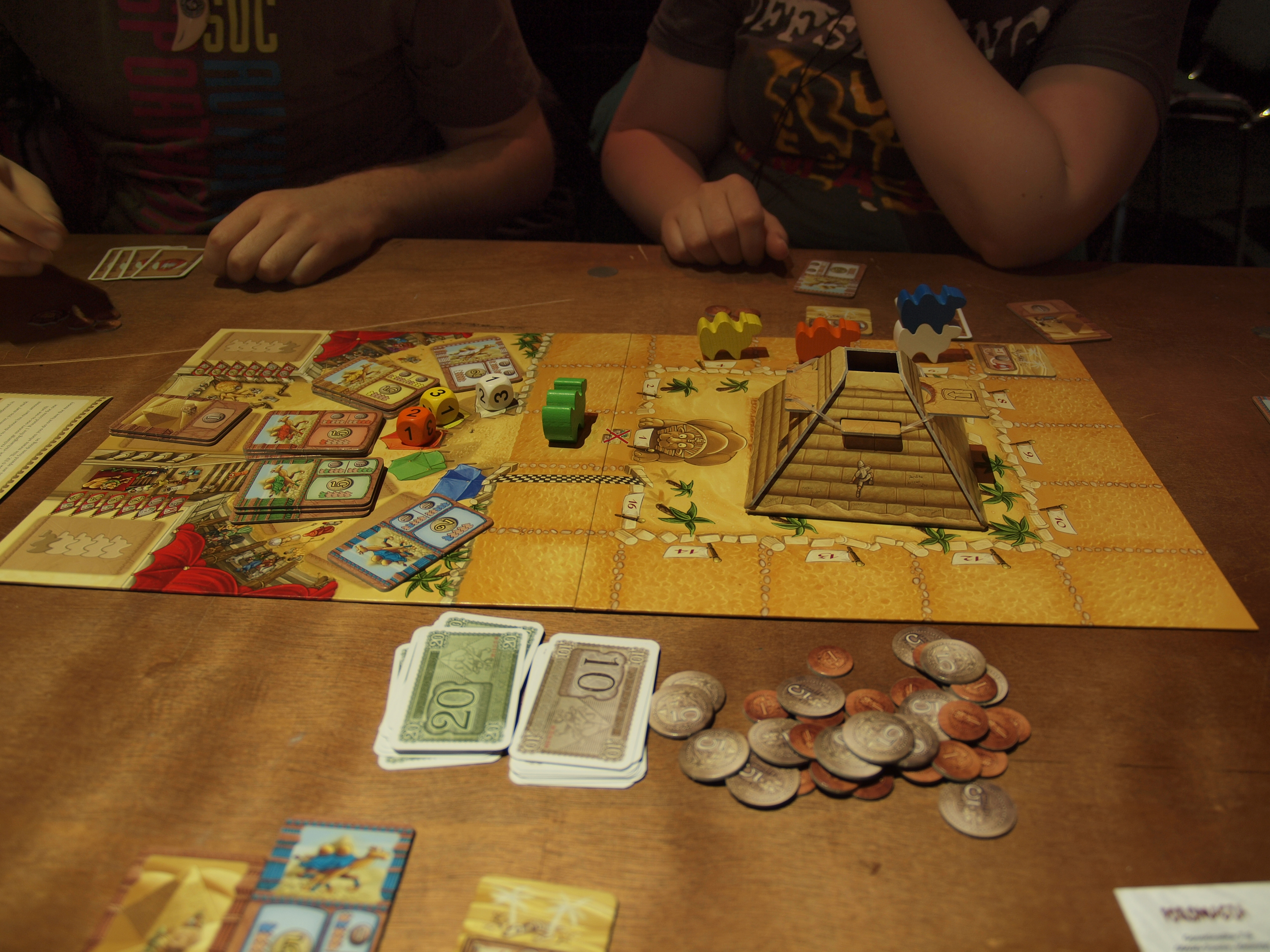 A game of Camel Up being played at a special board game day in cultural centre Gloria in Kaartinkaupunki, Helsinki, Uusimaa, Finland.